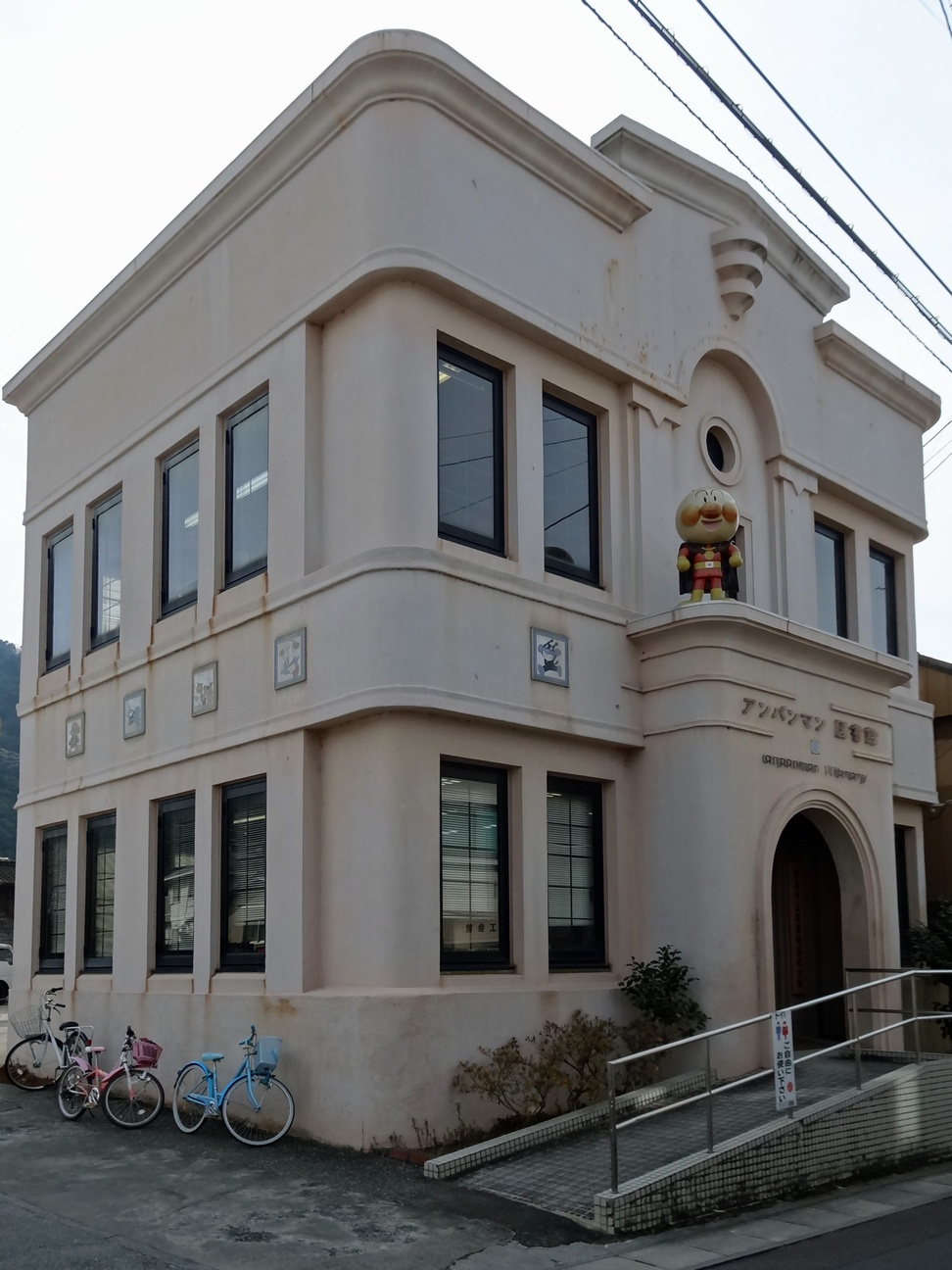 Kami City Library Kami Branch (Kochi Prefecture, Japan)